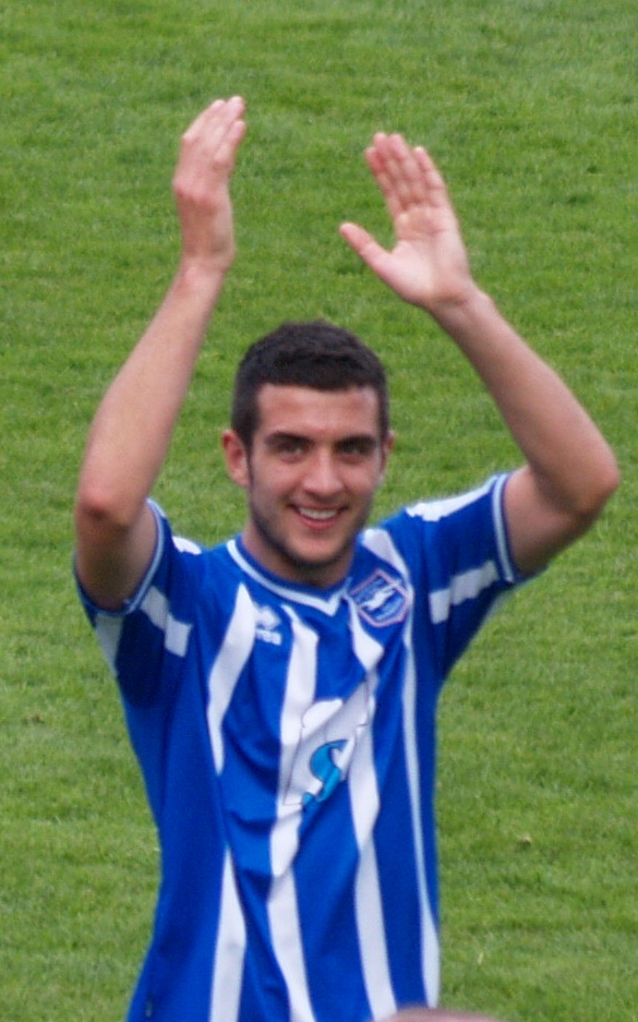 Photograph of Gary Dicker